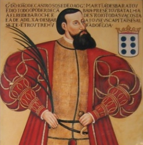 Painting of João de Castro, Viceroy of Portuguese India